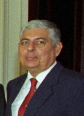 Manuel Esquivel on the State Floor of the White House